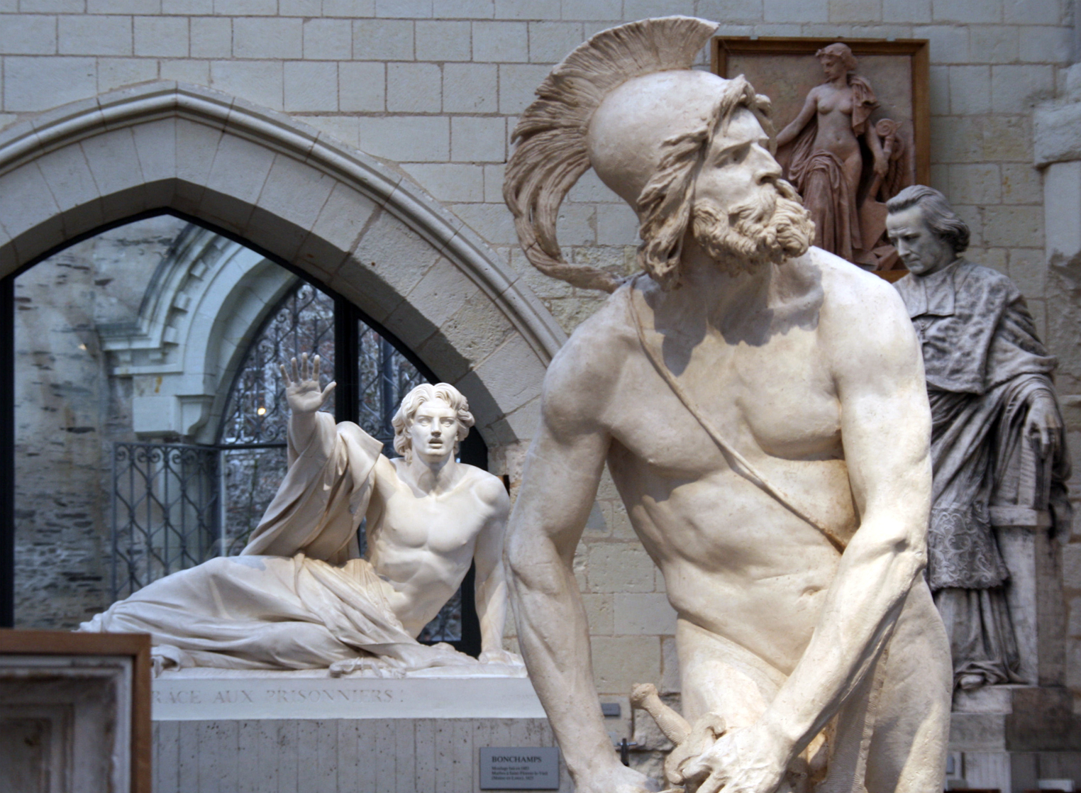 galerie David d'Angers, Angers, France